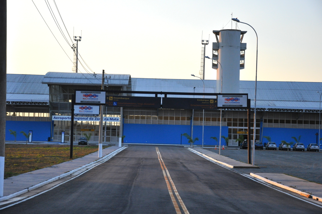 Entrance of the Regional Airport Zona da Mata - Goianá / MG